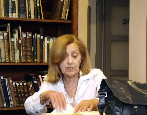 Prof. Gladys Vergara on the Observatory of Montevideo library. The asteroid 5659 Vergara discovered in 1968 July 18 by C. Torres and S. Cofre at Cerro El Roble is named in her honor.